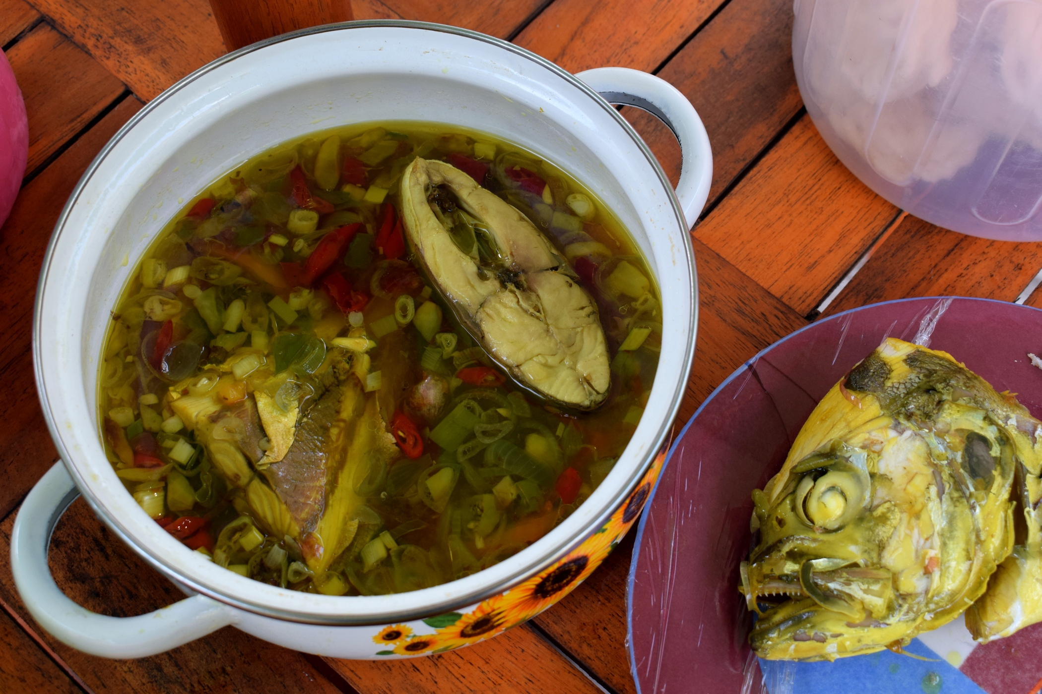 Pindang serani, a traditional fish soup from Karimunjawa, Central Java, Indonesia. With a kind of grouper.